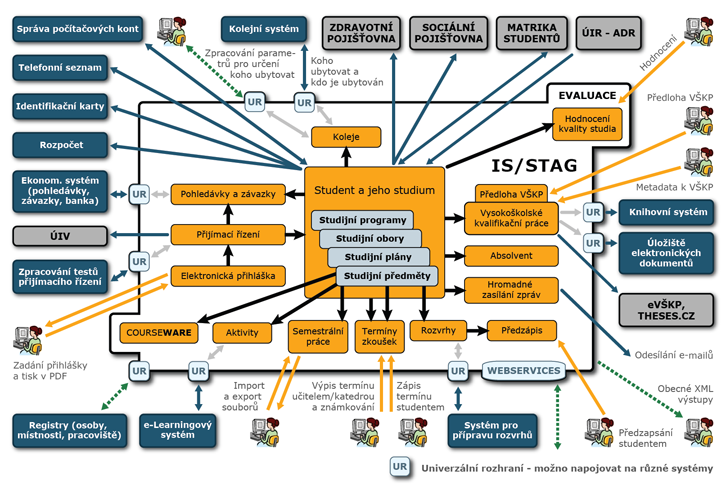 Scheme of connection and integrating possibilities of IS/STAG information system and external systems.